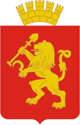 Krasnoyarsk (Krasnoyarsk krai), coat of arms